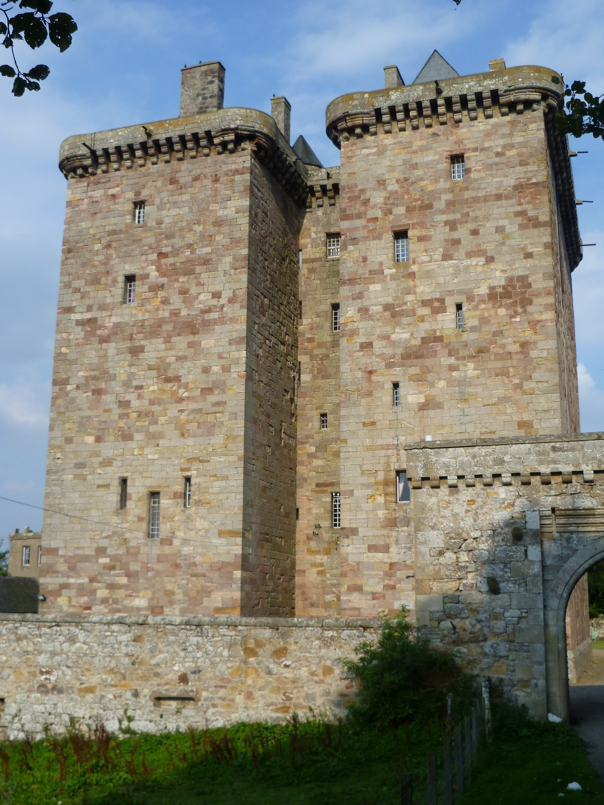 The fortified tower house was the classic Scottish solution to the problem of building defensible structures in a country where warfare was endemic for centuries. The Scottish Lowland landscape is peppered with many fine examples, to the extent that the 16thC historian, John Major, could write, "There are in Scotland for the most part two strongholds to every league, intended both as a defence against a foreign foe, and to meet the first outbreak of a civil war." (History of Greater Britain, 1521). Scotland's Stewart monarchs explicitly forbade the Scottish nobility to imitate the fortifications of their royal castles. Most 'castles' in Scotland are in fact tower houses which have been expanded by additional ranges which can often conceal the original tower at first sight. Borthwick is a unique example of twin towers.